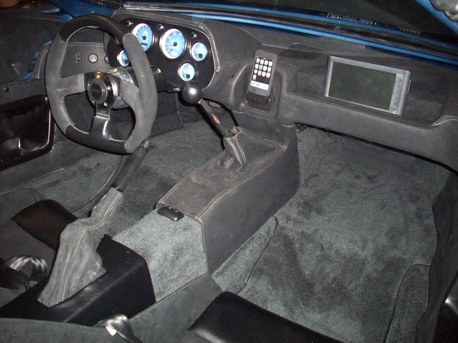 Orignal Sterling sports car style dash with the pods, this is the modern version of the sports car dash